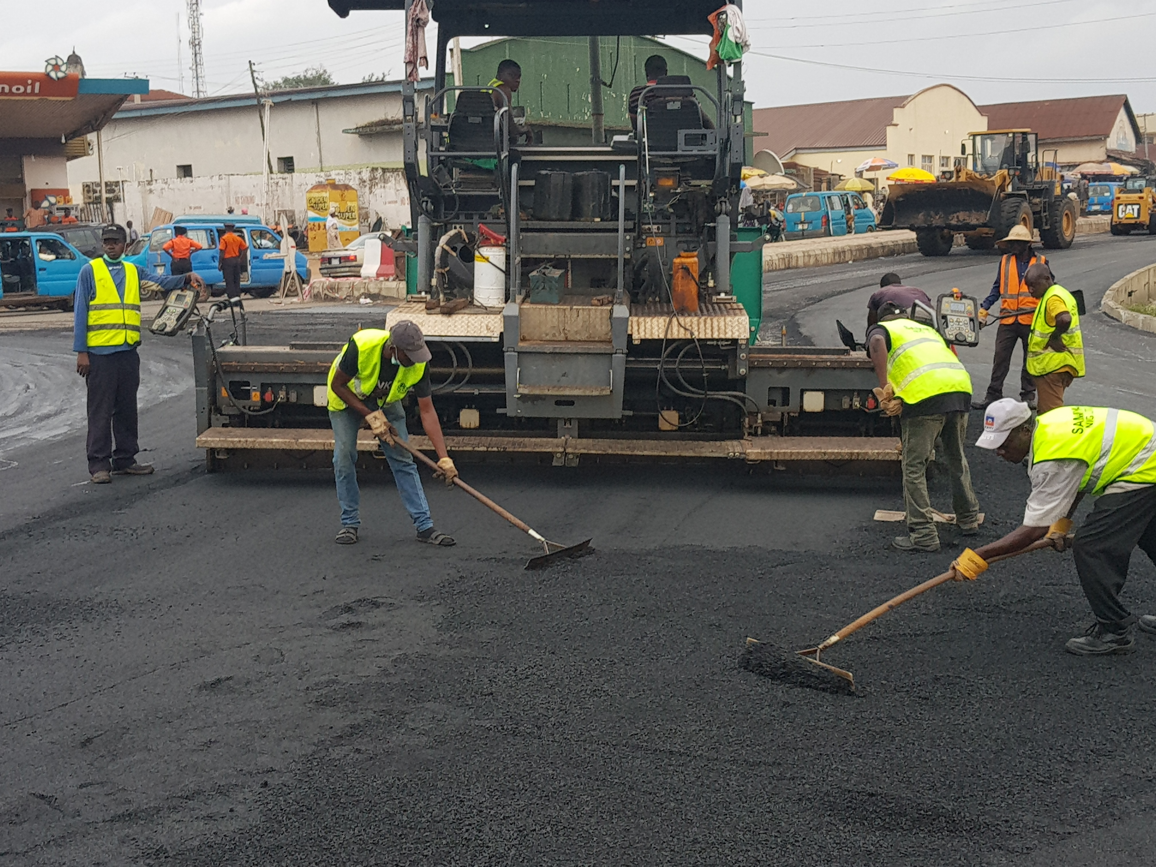 Laying asphalt This is an image of "African people at work" from Nigeria